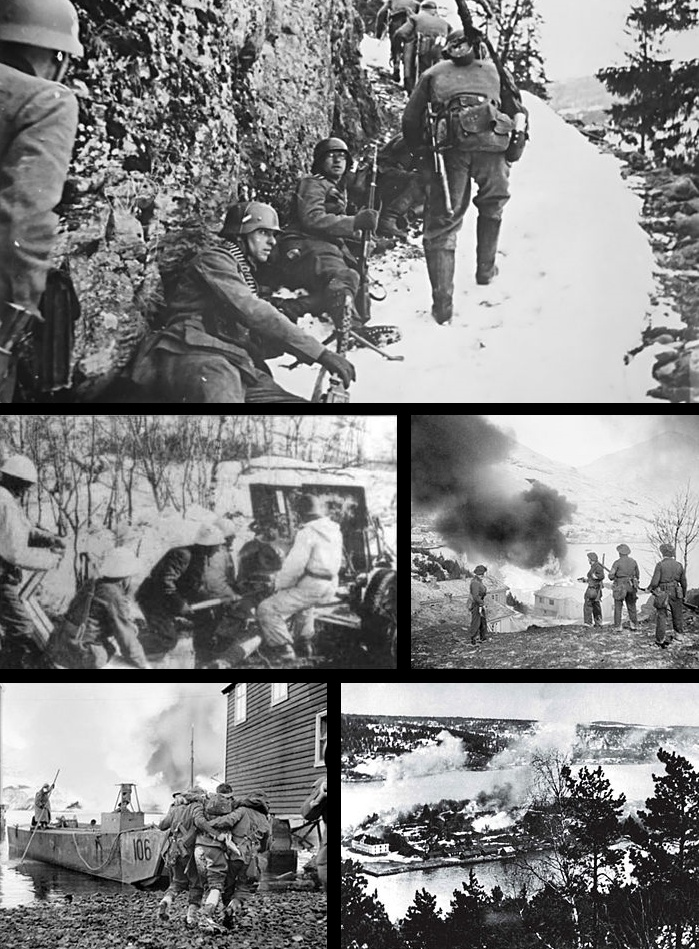 Battle of Norway.